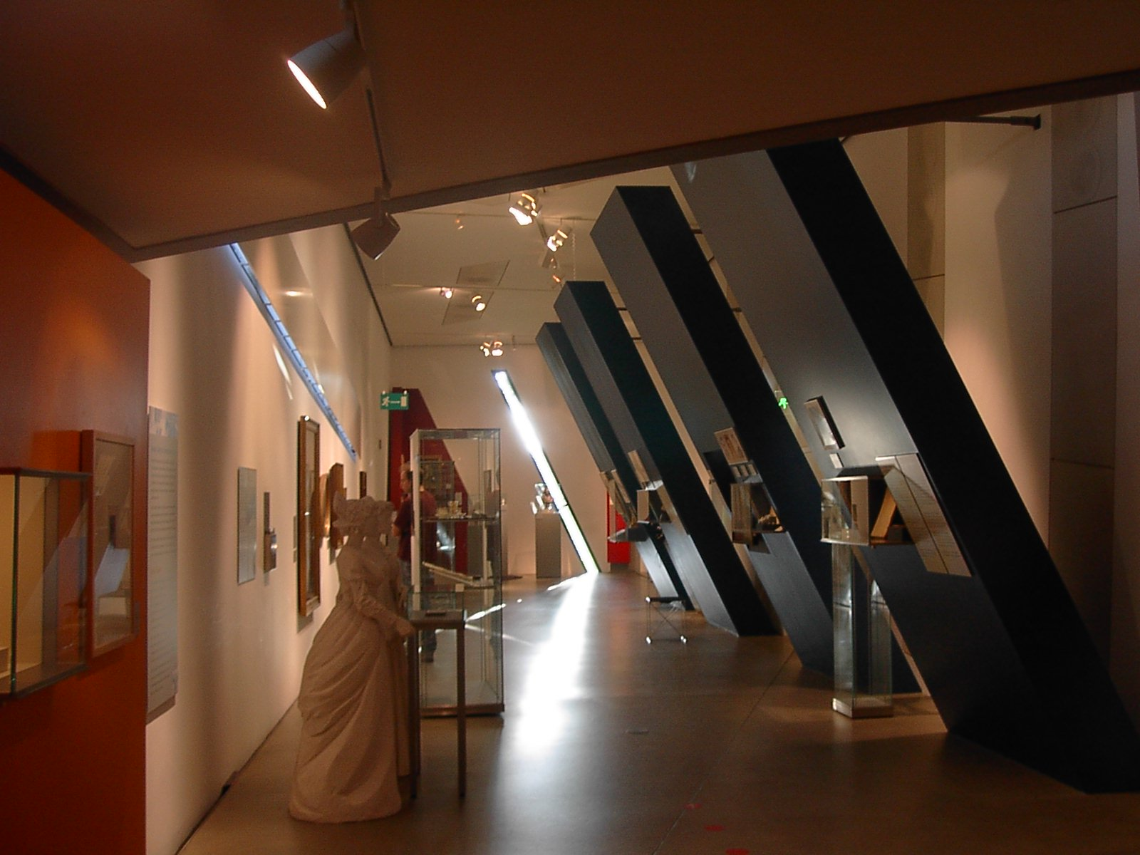 A view of some of the displays in the Jewish Museum